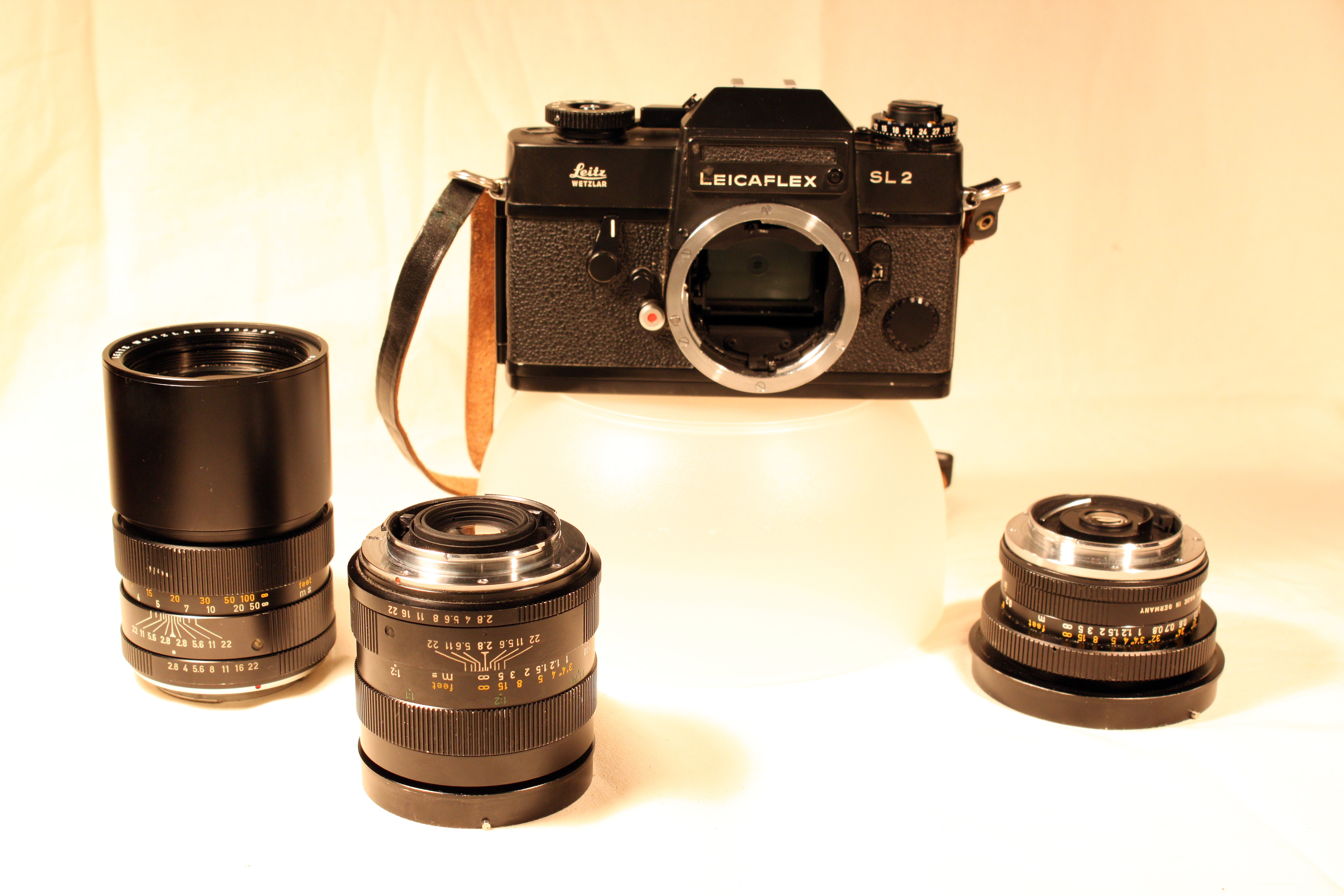 A Leicaflex SL2 single lens reflex camera, serial 1419721, along with three suitable objectives: an "Elmarit-1:2.8 / 135" (serial 2306999) at the left, a "Macro-Elmarit-R 1:2.8 / 60" (serial 2630319) in the middle and a "Super-Angulon-R 1:4 / 21" (serial 2449016) at the right.